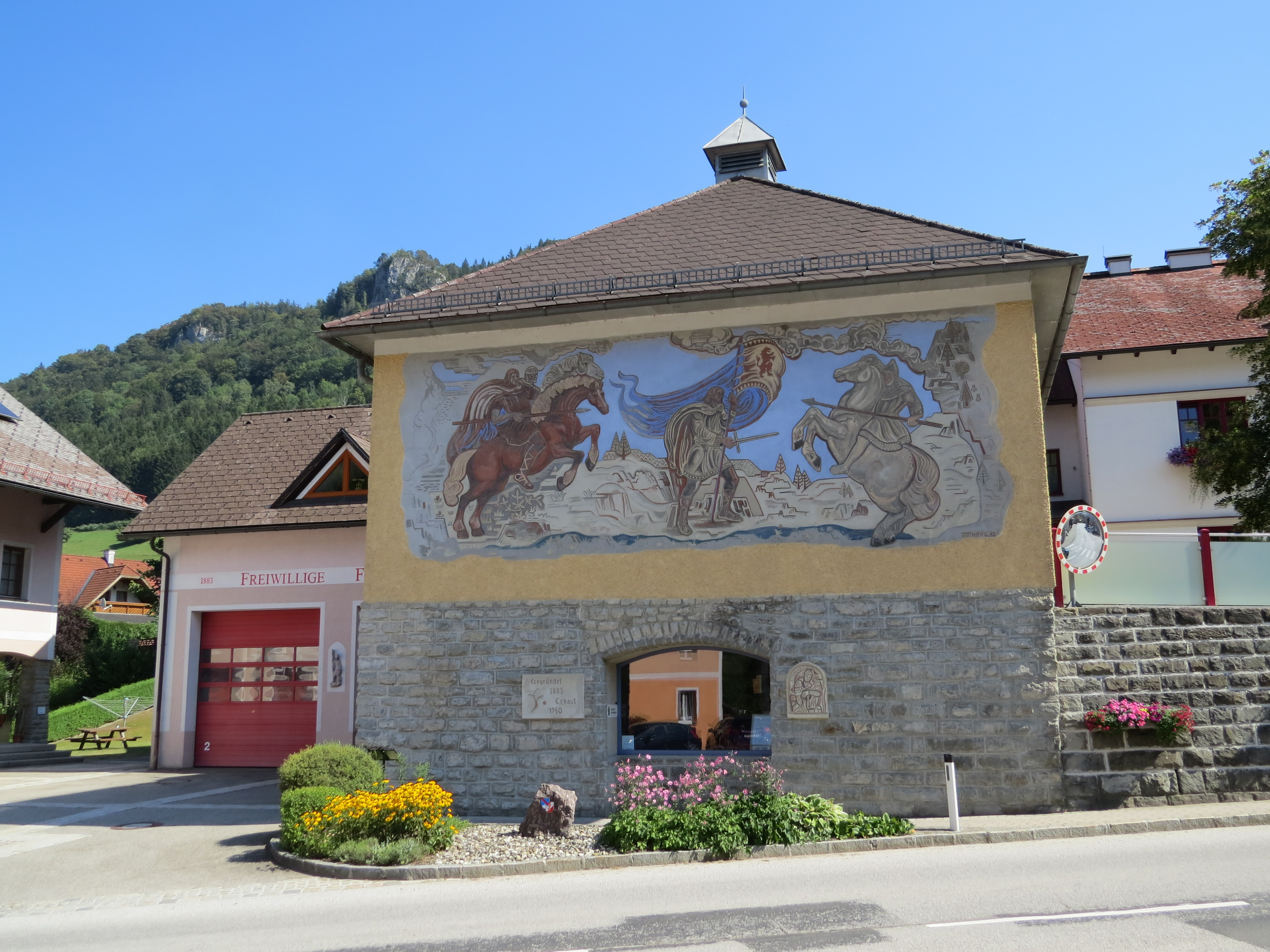 Painting from Josef Zöchling at fire staion and museum in Frankenfels 2018-08-09.